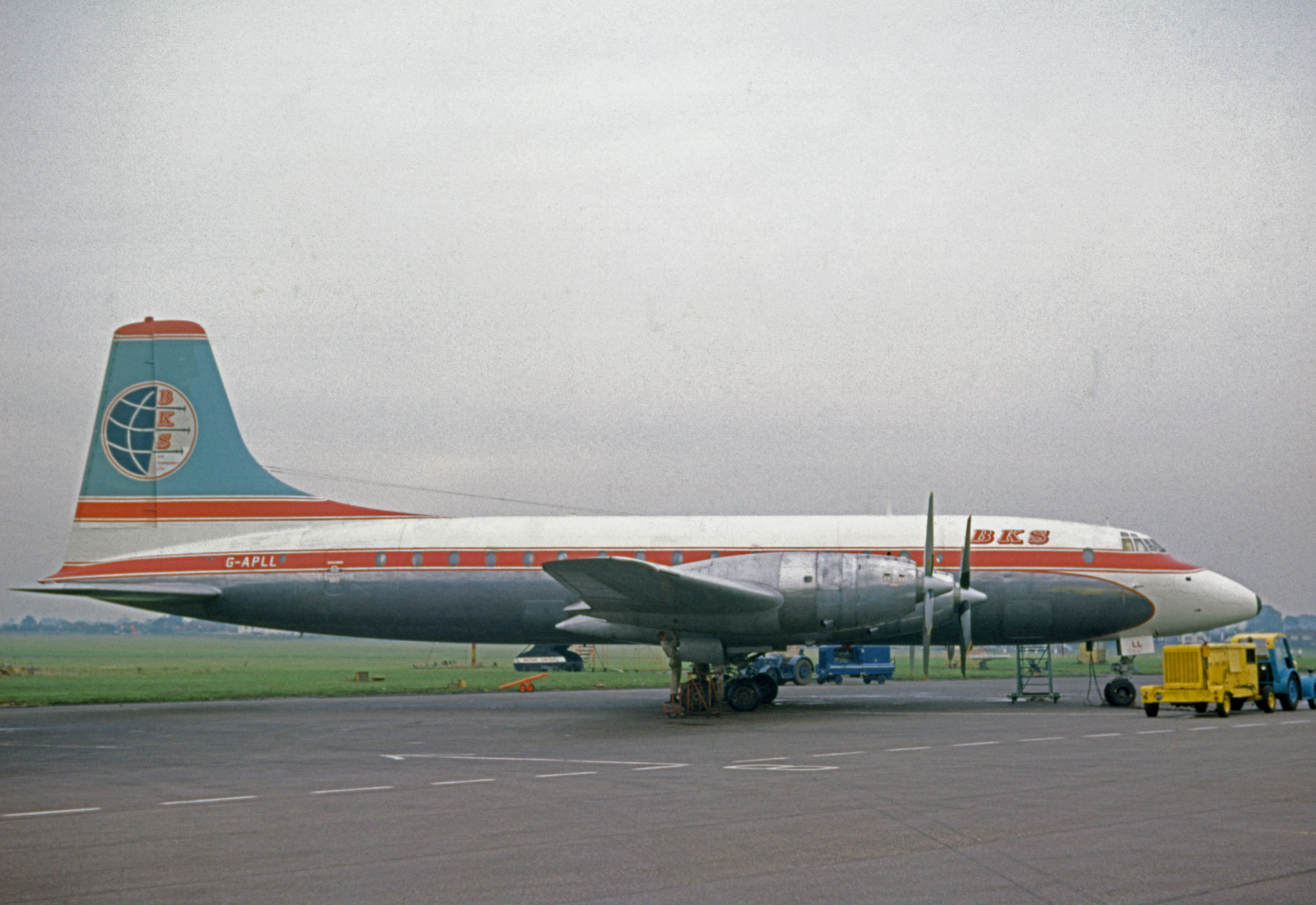 Bristol 175 Britannia 102 G-APLL, BKS Air Transport, Southend, UK